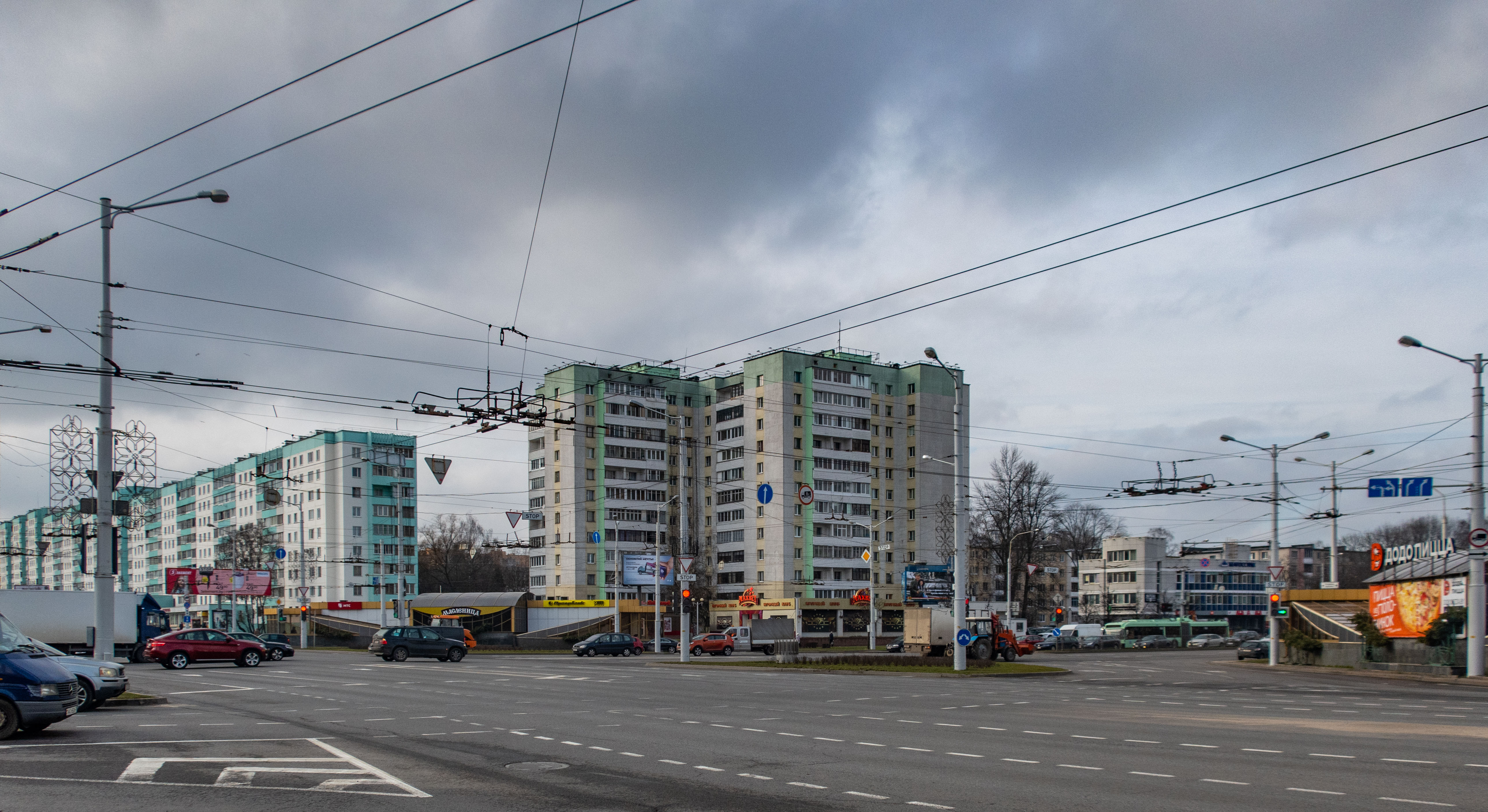 Puškina square. Minsk, Belarus